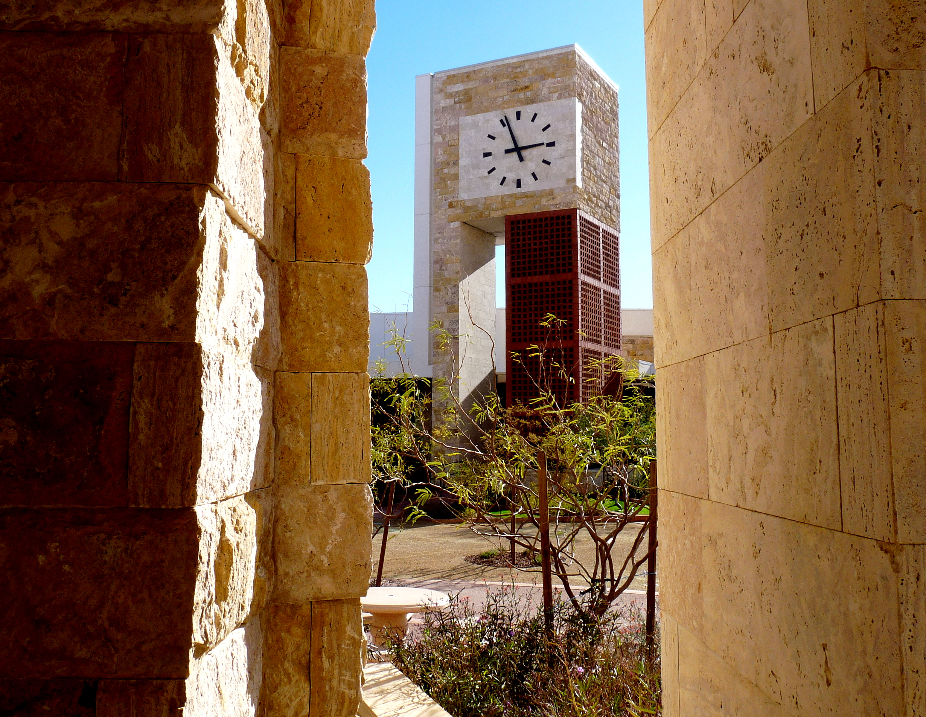 The image represents the clock tower of the new City Hall of the City of Surprise, Arizona, the United States of America. All the buildings, as the entire absolutely new Civic Center of the City of Surprise, were dedicated in October 2009.